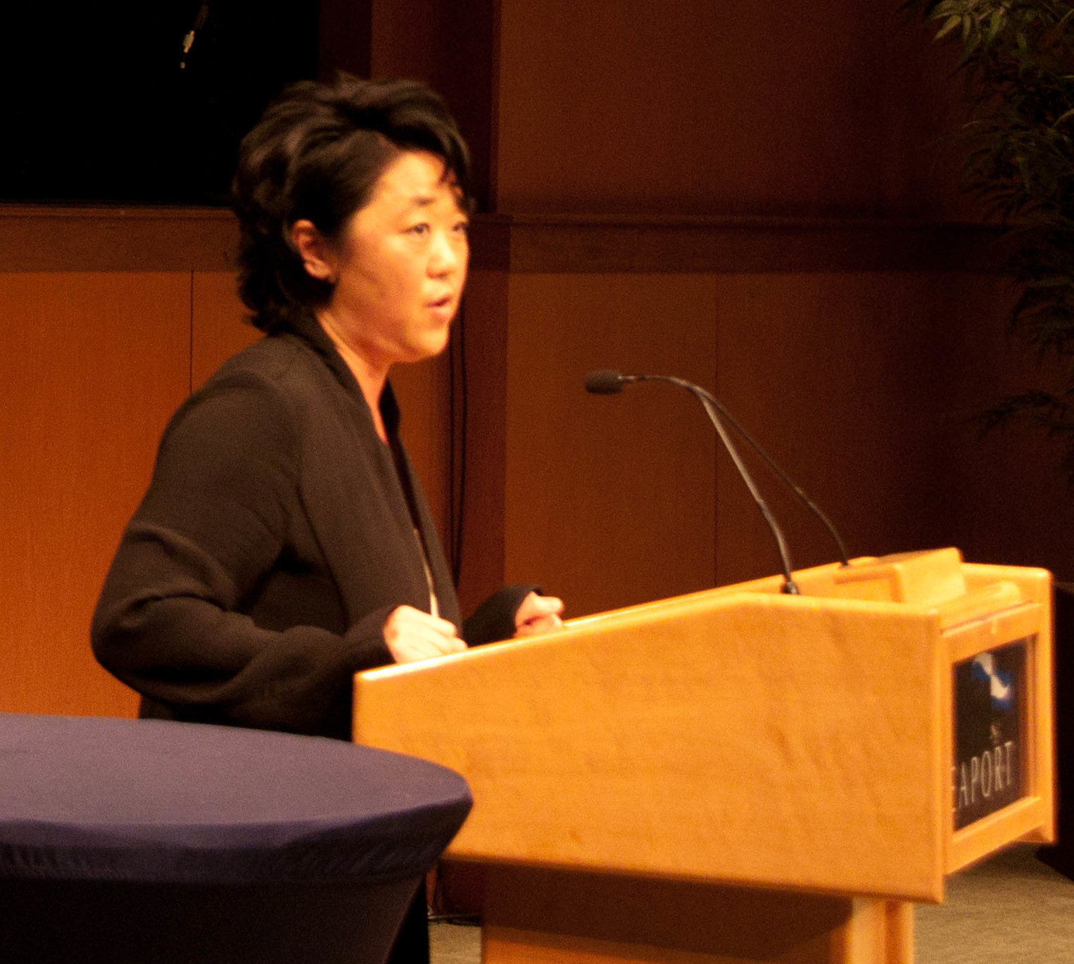 Business of Software 2010, Boston